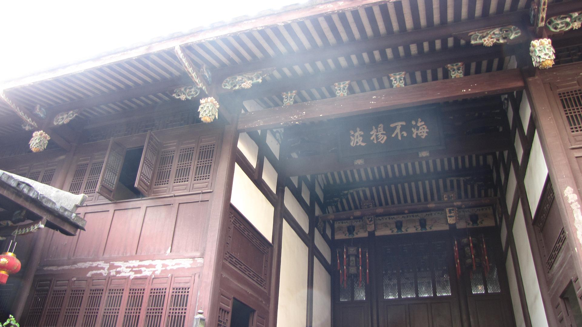 Ryukyu House in Fuzhou, the hall